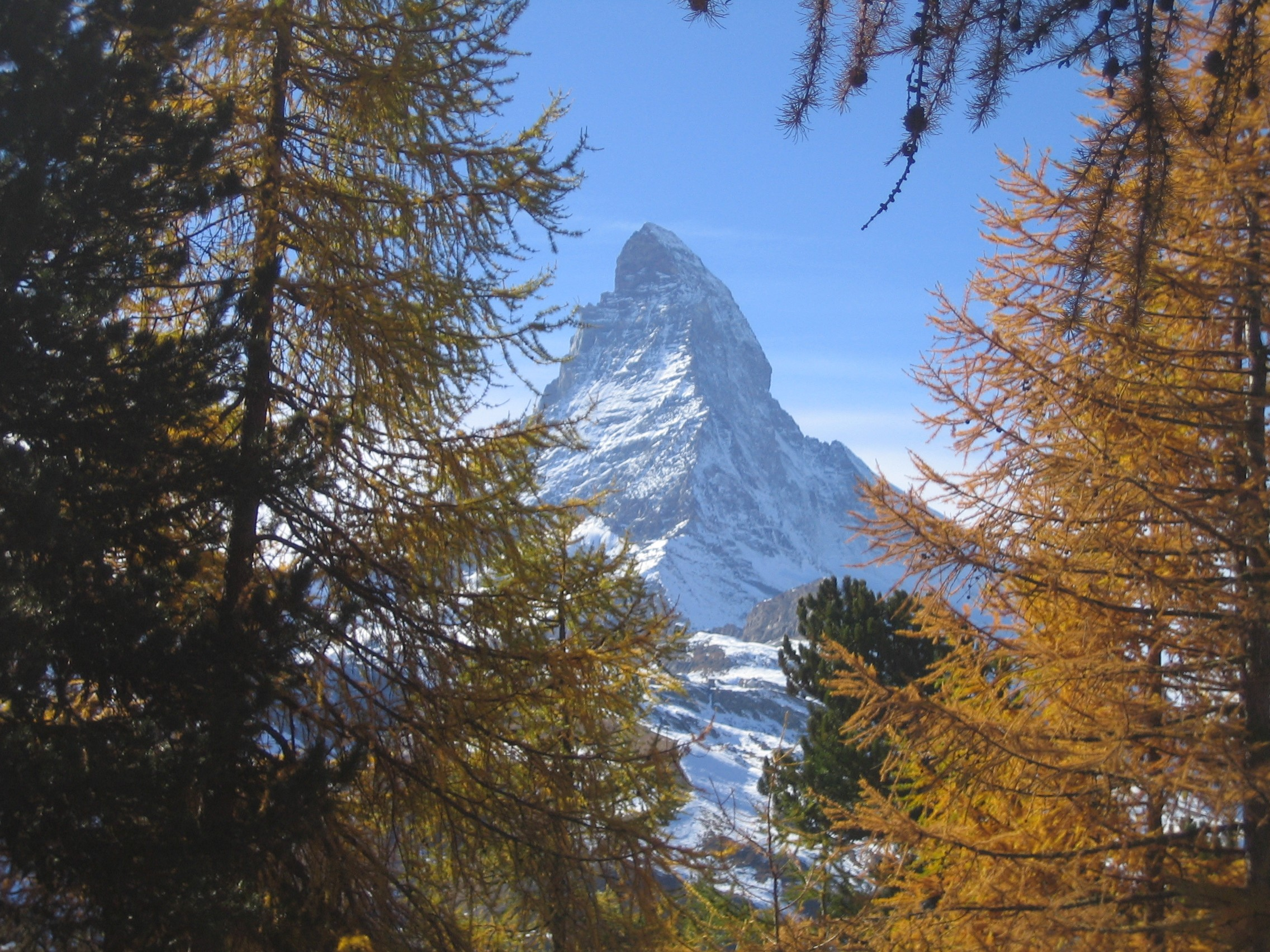 Larch trees, Larix decidua framing the Matterhorn in autumn, Switzerland.